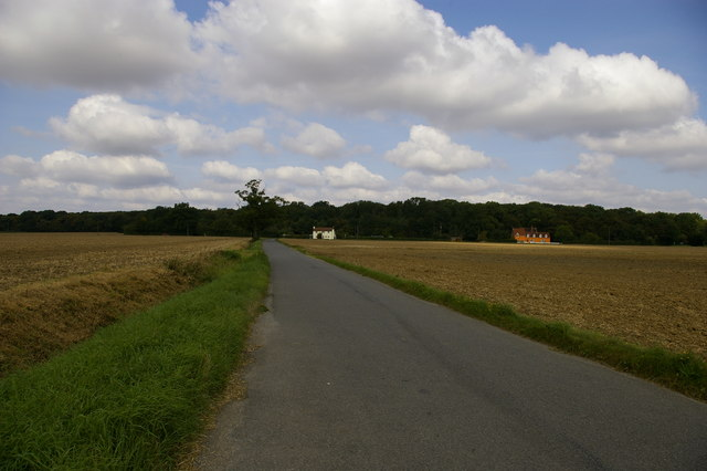 Bulls Cross Wood Part of the Milden Thicks - the white house seen in the distance is Wood House, the terracotta-coloured house seen at right is Bulls Cross House (both in adjacent grid square).